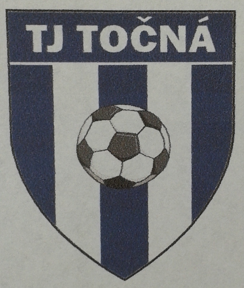 Emblem of the football club TJ Točná.